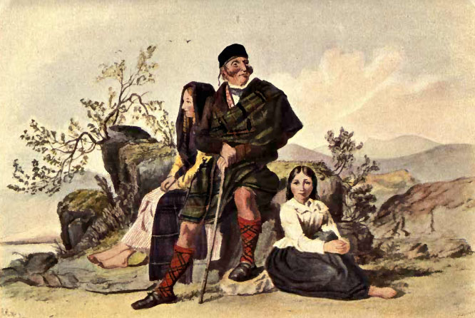 "Ewen Mac Phee the Outlaw". A plate illustrated by R. R. McIan, from McIan's Highlanders at Home, or Gaelic Gatherings, by R. R. McIan and James Logan, published in 1900.